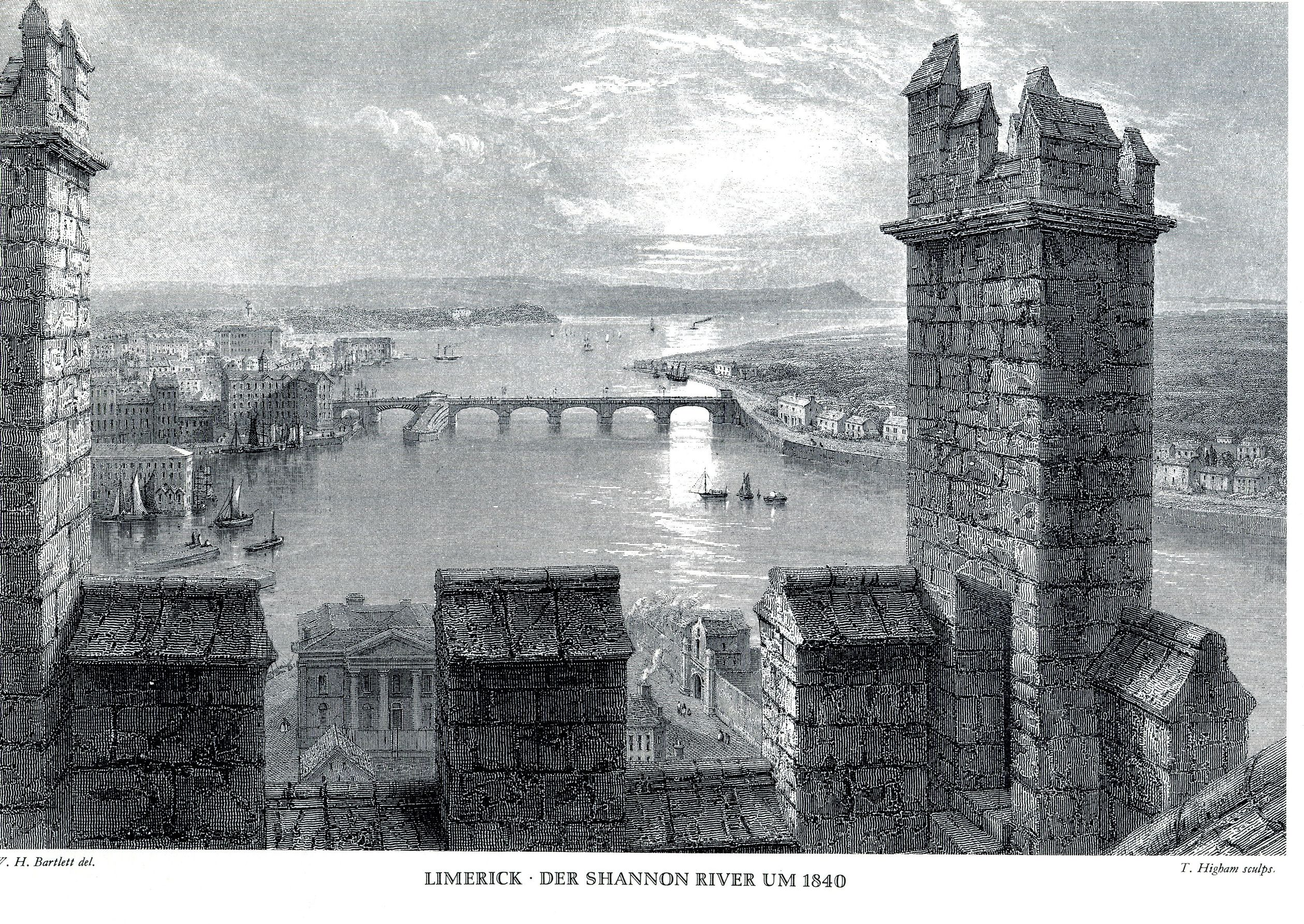 Limerick on the Shannon river: engraved by T. Higham after a picture by W.H.Bartlett, published 1840